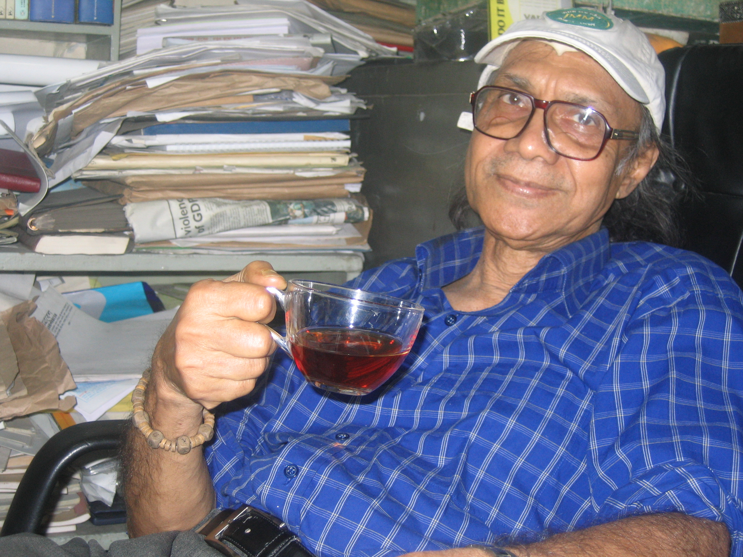 Bengali author, poet, critic and editor Abdul Mannan Syed (1943-2010) from Bangladesh. Photograph taken by Faizul Latif Chowdhury. Place: Biju's Pathak Samabesh, Shahbagh, Dhaka, Bangladesh.